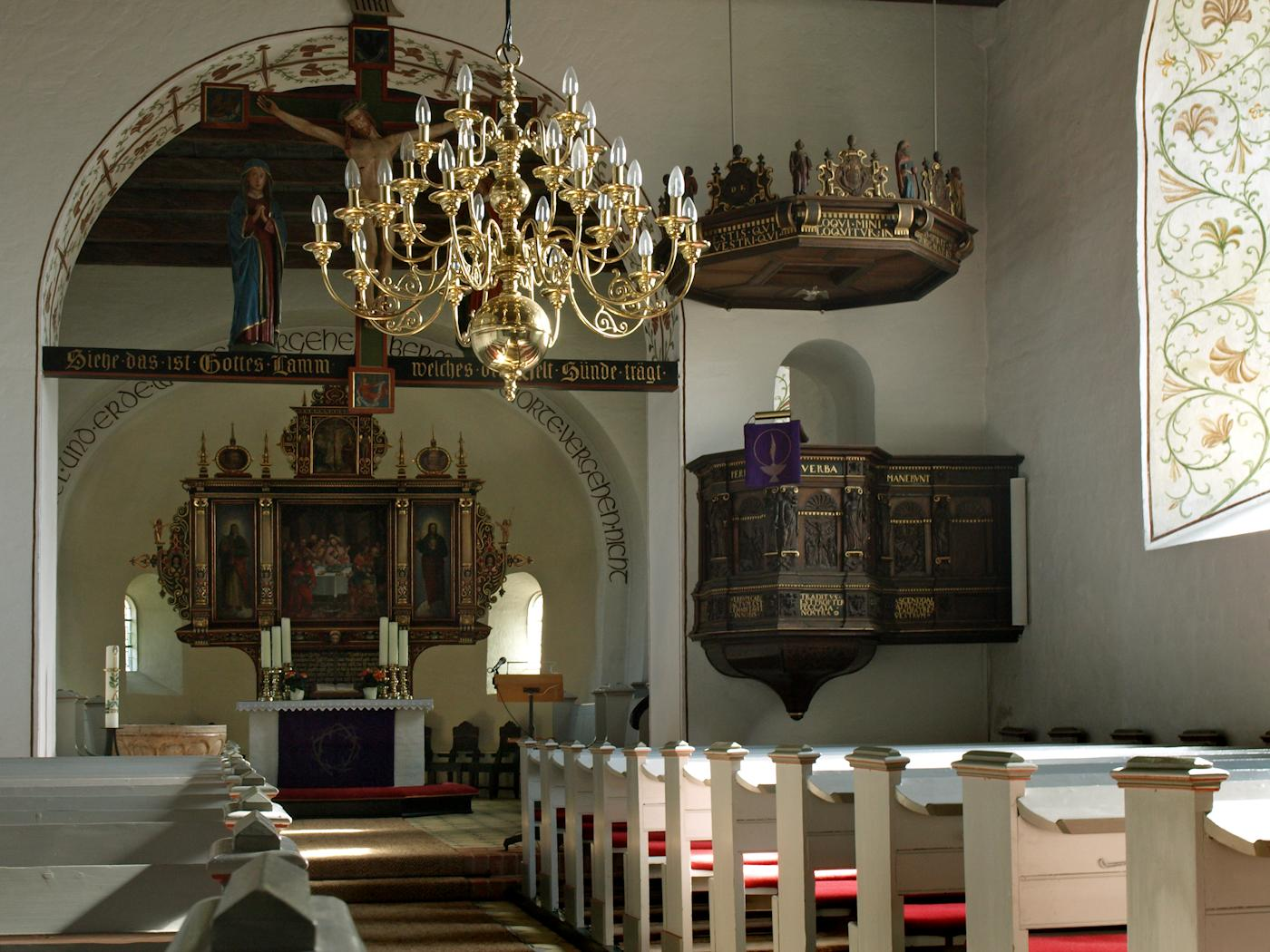 Boel, Schleswig-Holstein (Germany), Church St. Ursula, Interior, photo 2011